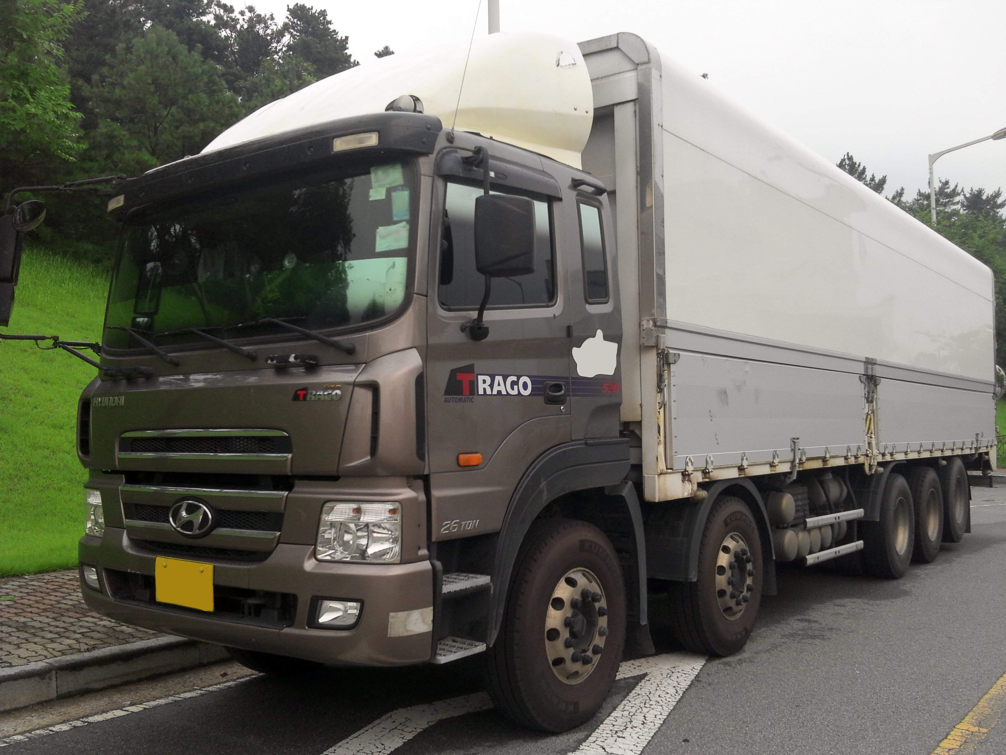 Front-left side of Hyundai Trago 26ton Cargo.